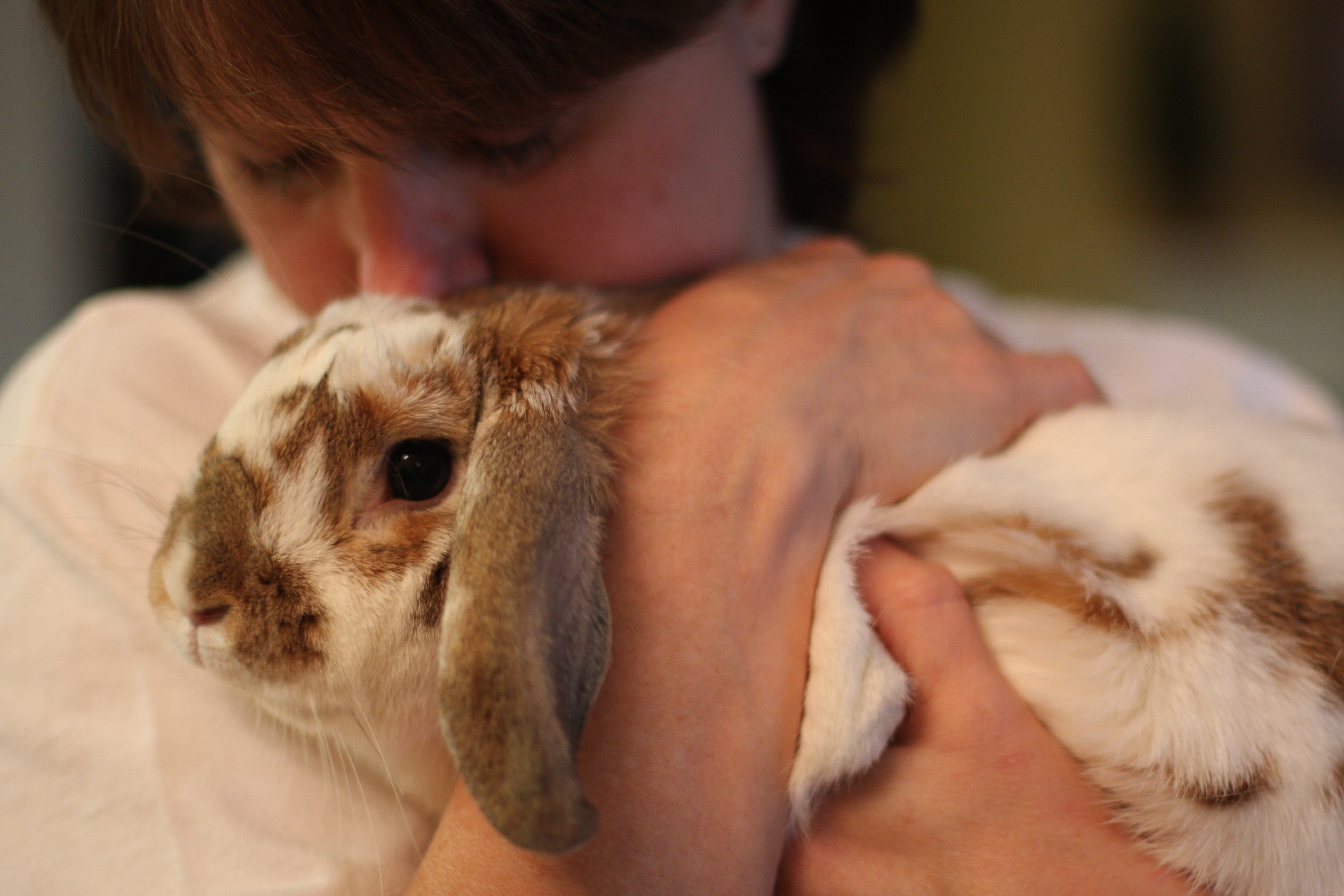 A woman and her rabbit